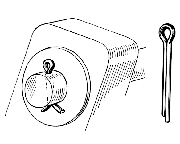 Line drawing of a cotter pin/split pin